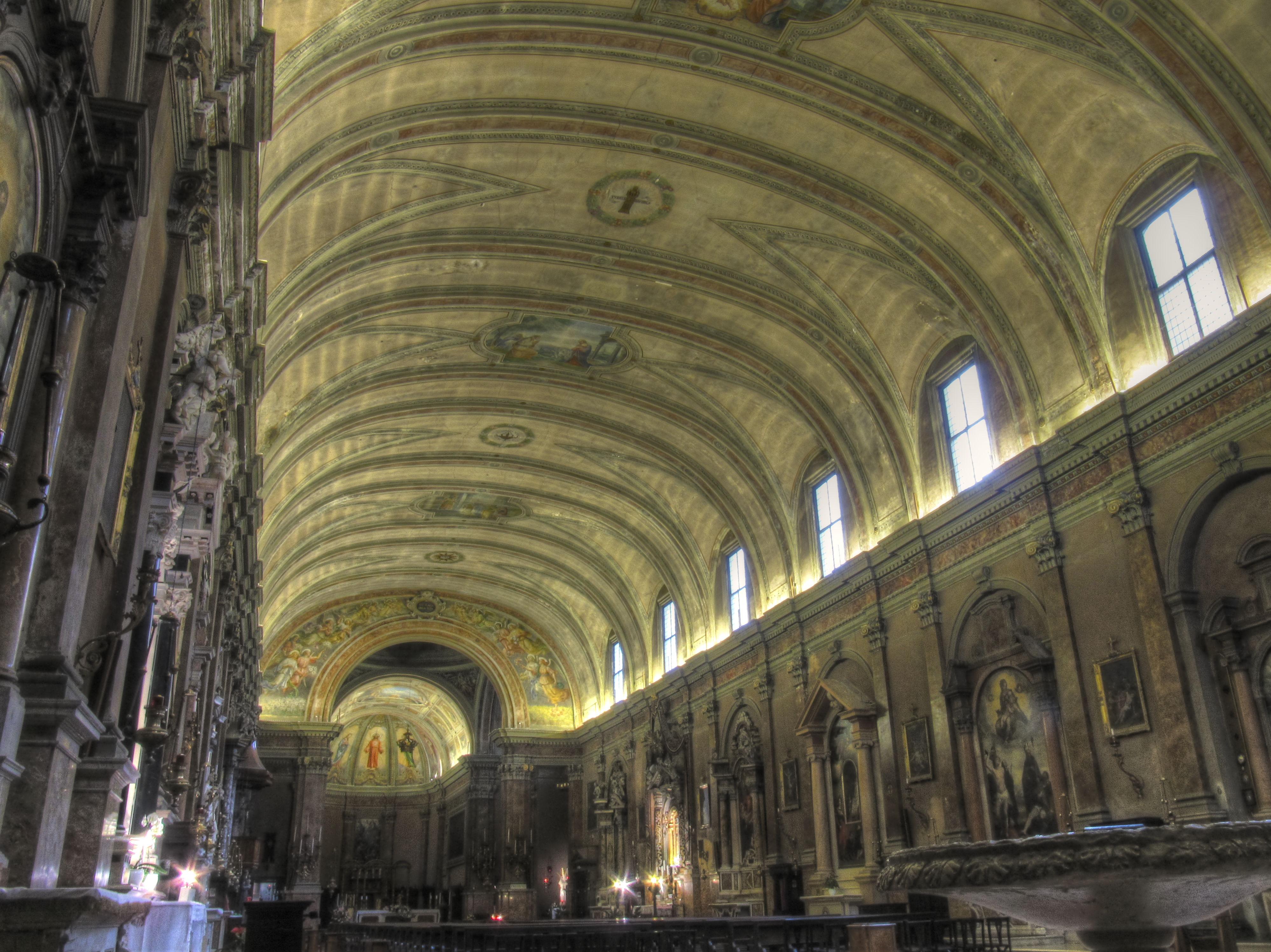 Santa Eufemia interior, Verona